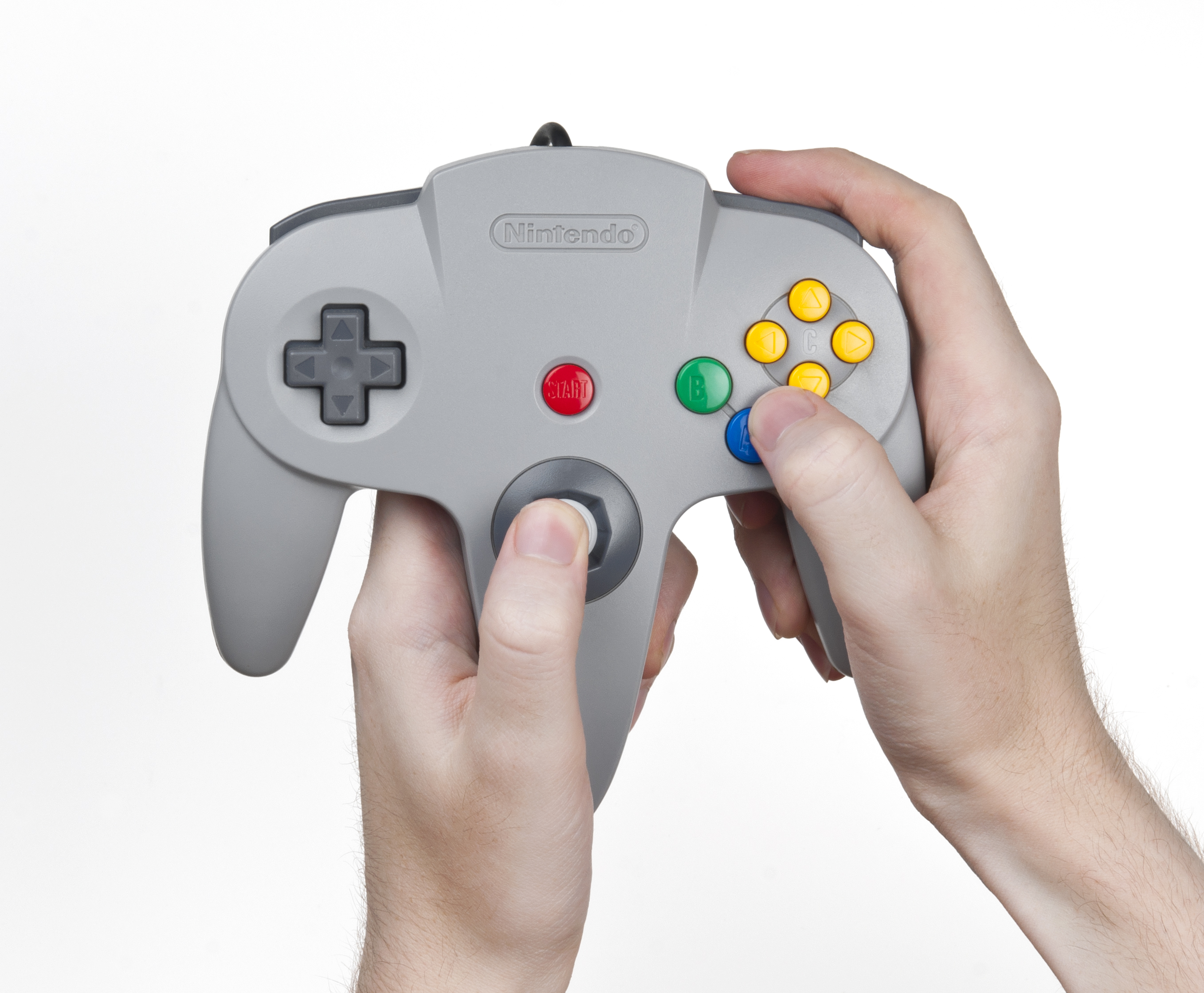 An N64 controller shown in hand, in its most common playing position.